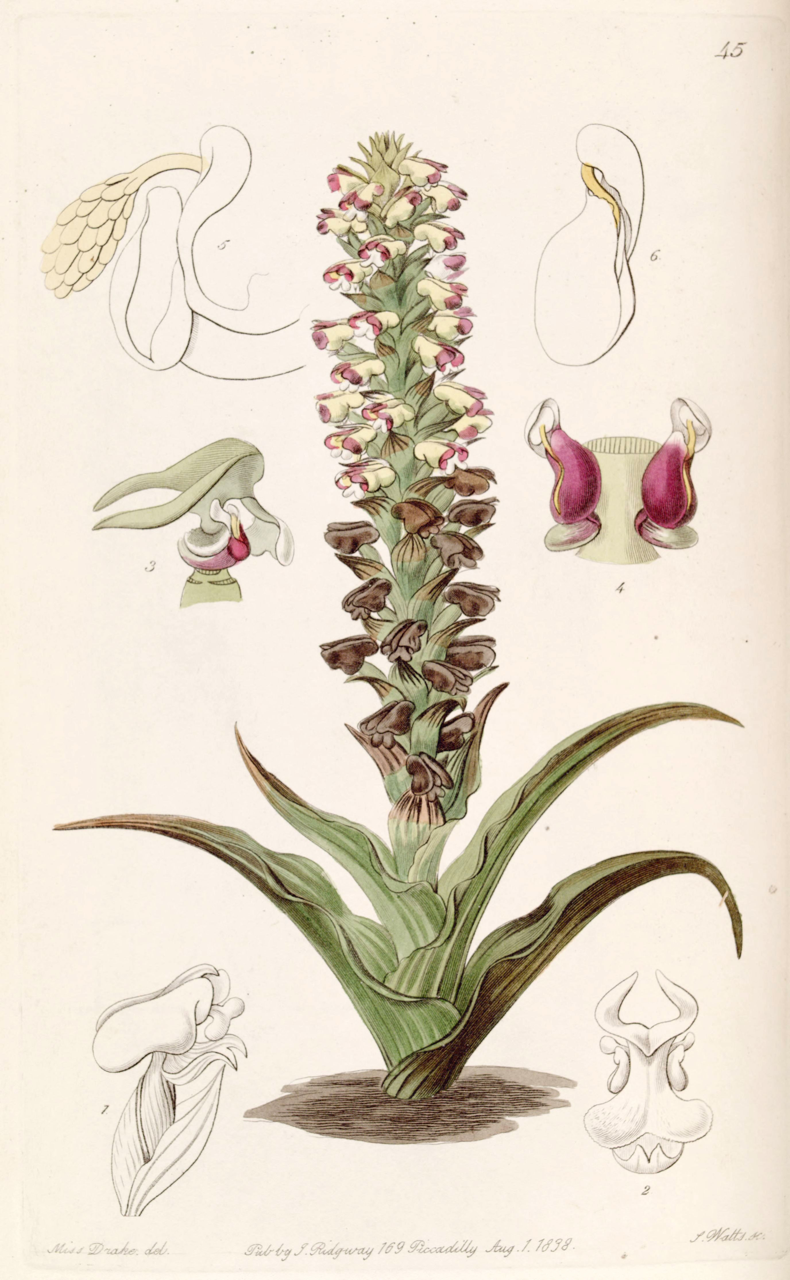 Corycium orobanchoides